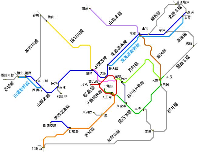 Osaka Urban Network map